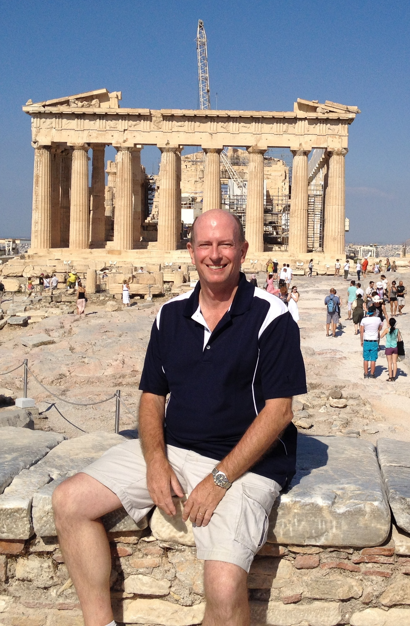 Robert Hutchinson on the Acropolis in Athens, Greece